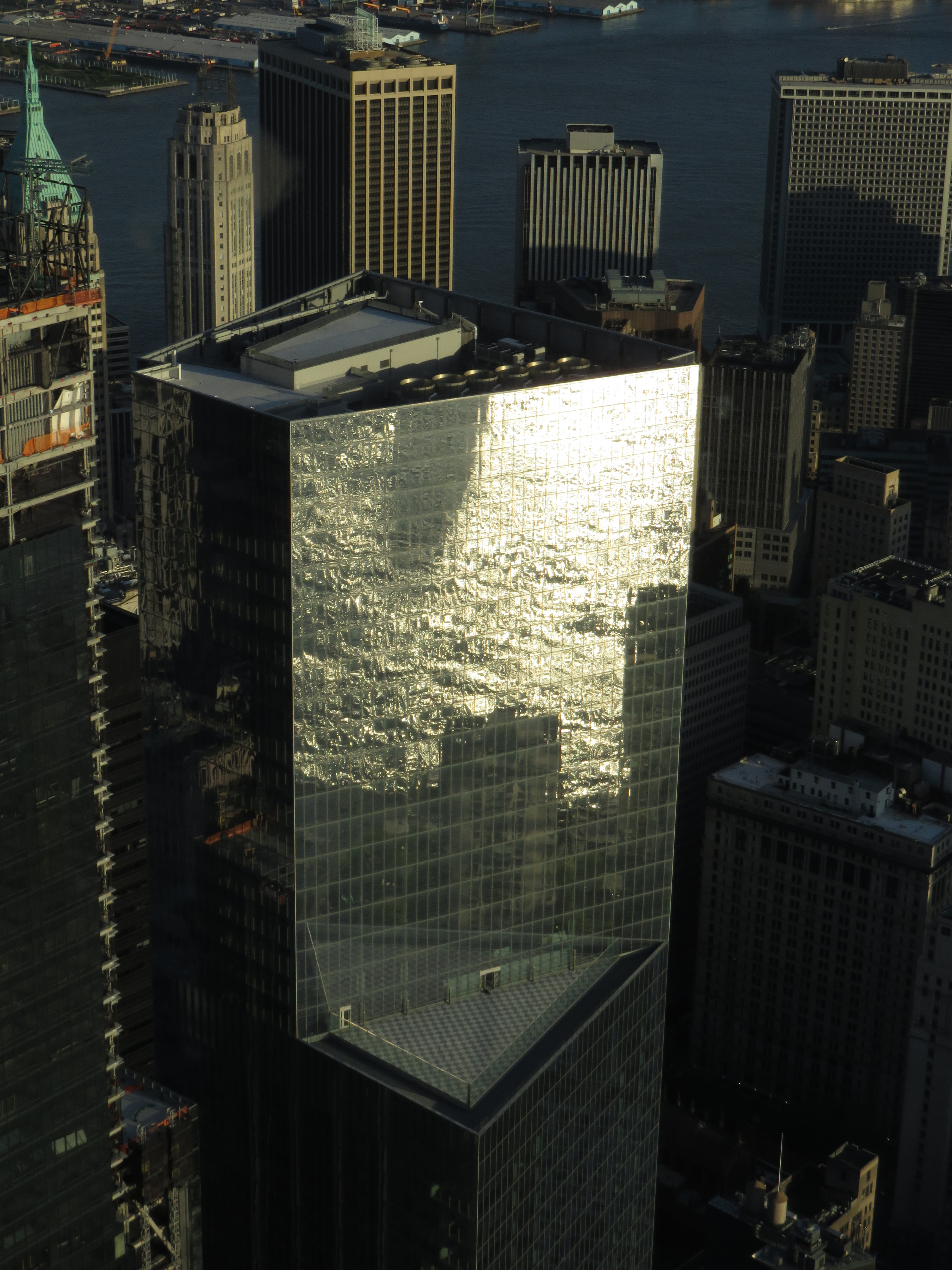 Four World Trade Center reflecting water of the Hudson River viewed from One World Observatory in 2017